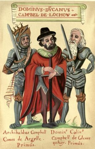 A sixteenth or seventeenth century illustration, facing page 9 of the Black Book of Taymouth, depicting centre Duncan Campbell of Lochawe (died 1453) . On Duncan's right is his grandson Colin (died 1492) who is incorrectly called Archibald, and on his left Colin of Glenorchy (died 1480). Description of image after Steve Boardman's The Campbells.